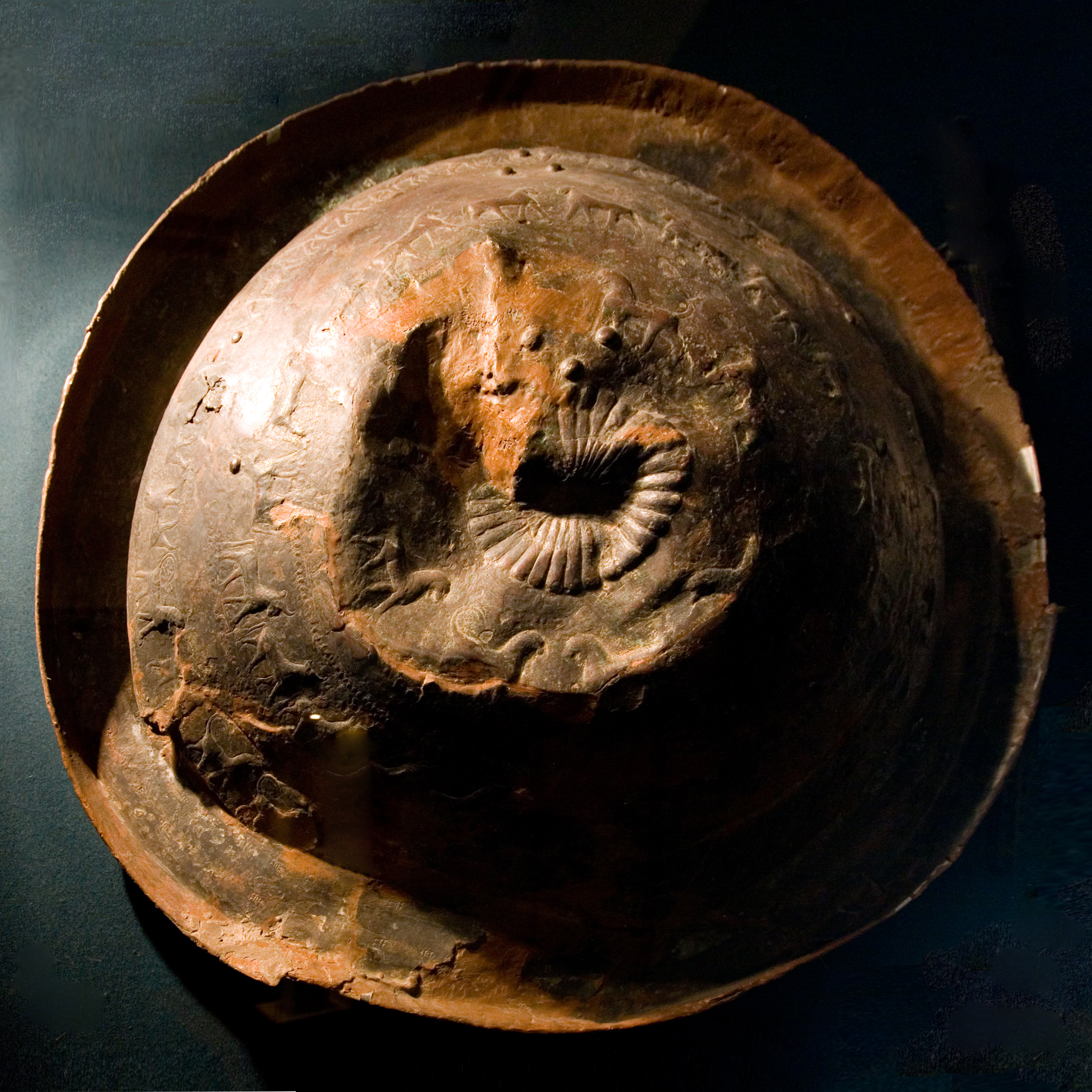 Urartian Shield (belonged to Argishti I)